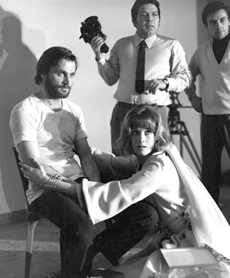 Press photo for United Artists' A Quiet Place in the Country featuring Franco Nero and Vanessa Redgrave with director Elio Petri